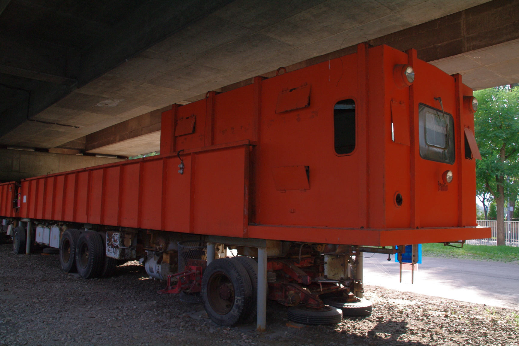 Sapporo subway Nanboku line examination car Suzukake.